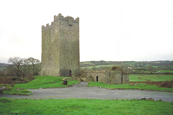 Photo taken by Richard G. O'Dea, release all rights